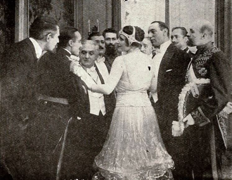 Still from the American drama film As in a Looking Glass (1916) with Kitty Gordon, on page 158 of the April 1916 Cine-Mundial (American Spanish language magazine).